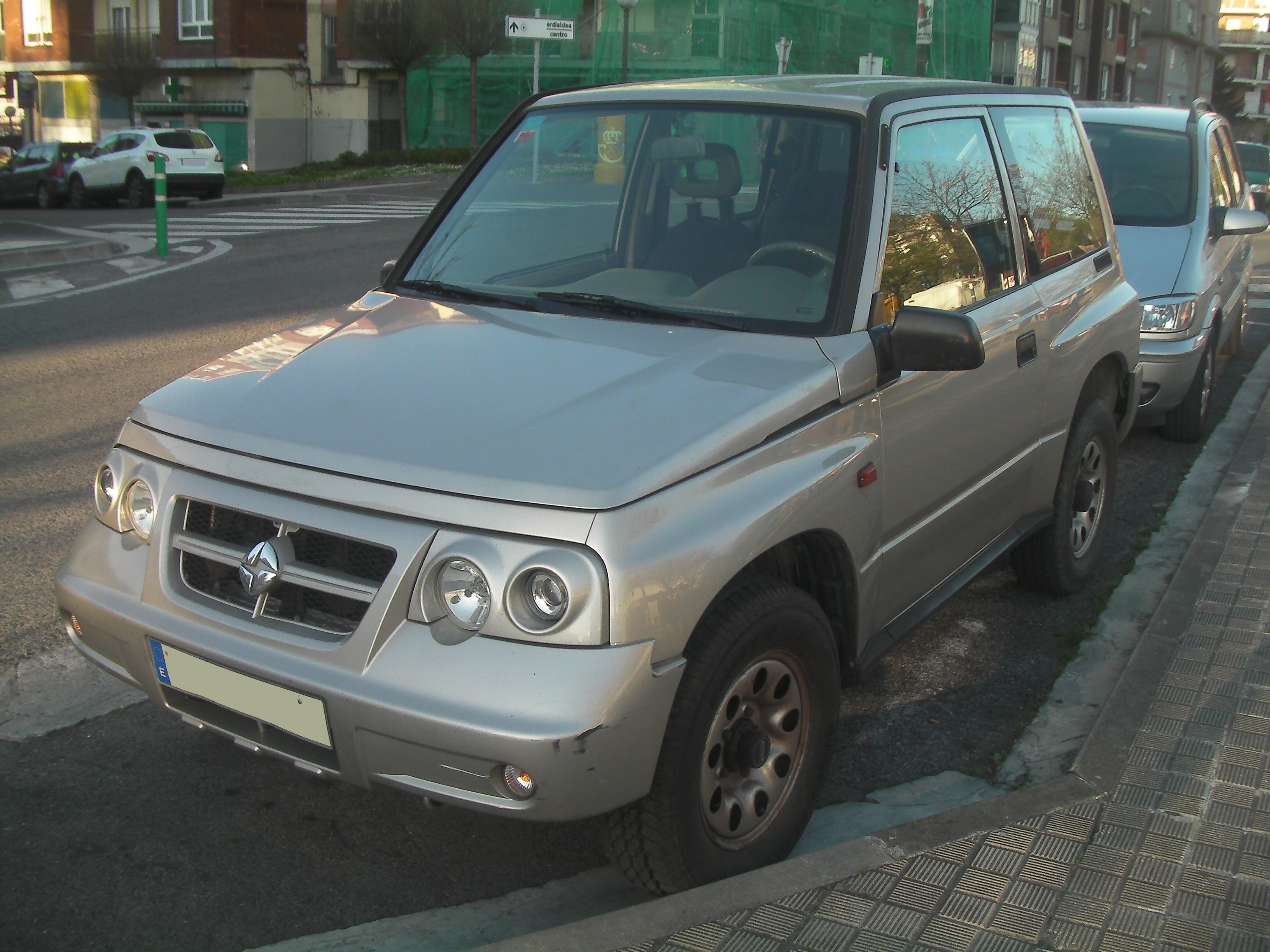 A Santana 300, a rebadged Suzuki Vitara that was produced in Linares, Jaen by the late Santana Motor S.A. up until 2011, sits outside on the streets of Irun, Spain. April 2015.